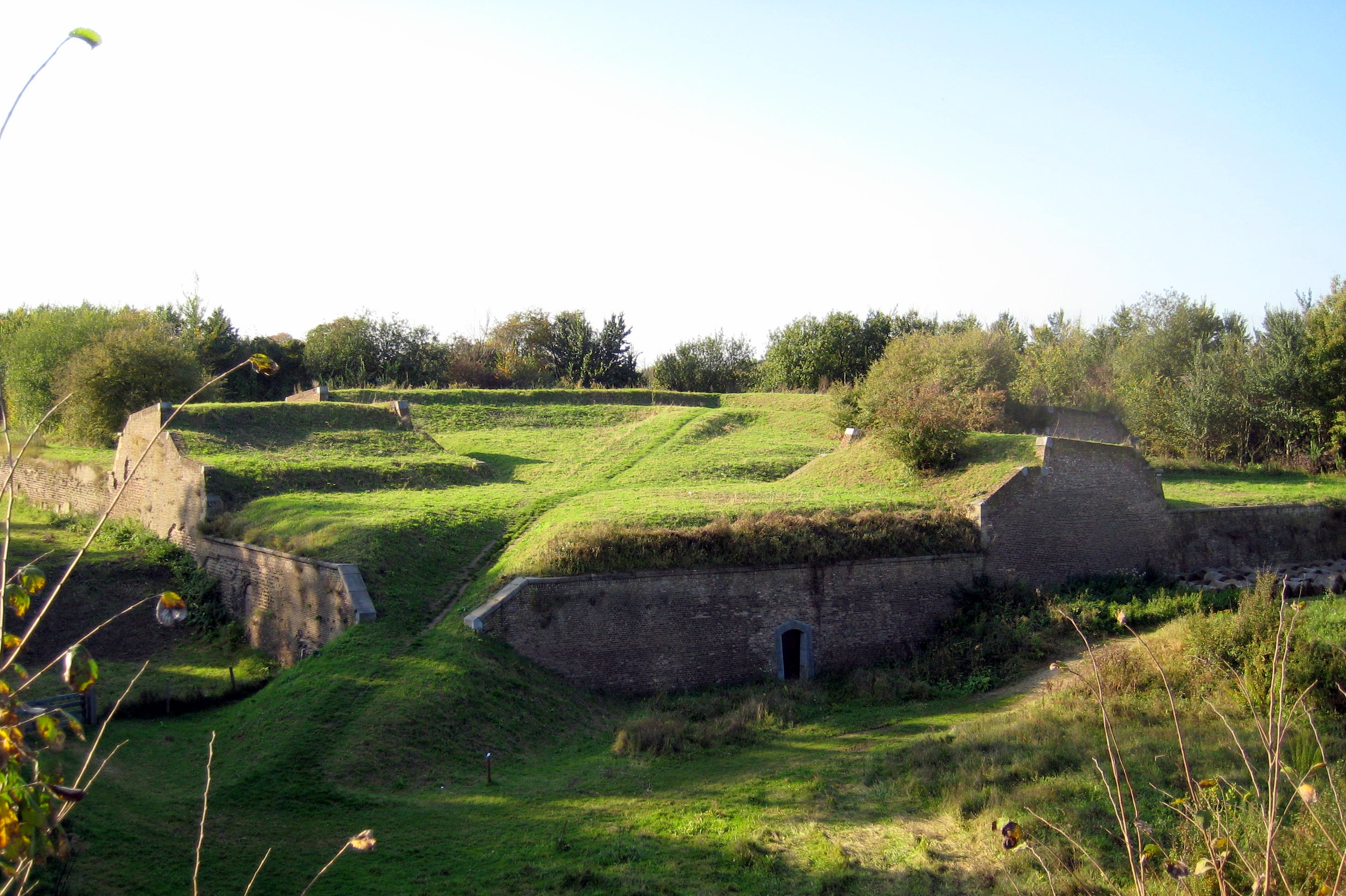 Linie van Du Moulin, a fortification in Maastricht, dating from the 18th century. Its national -monument number is 18172.